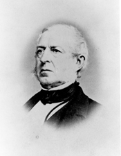 Portrait of Senator Augustus Seymour Porter of Michigan